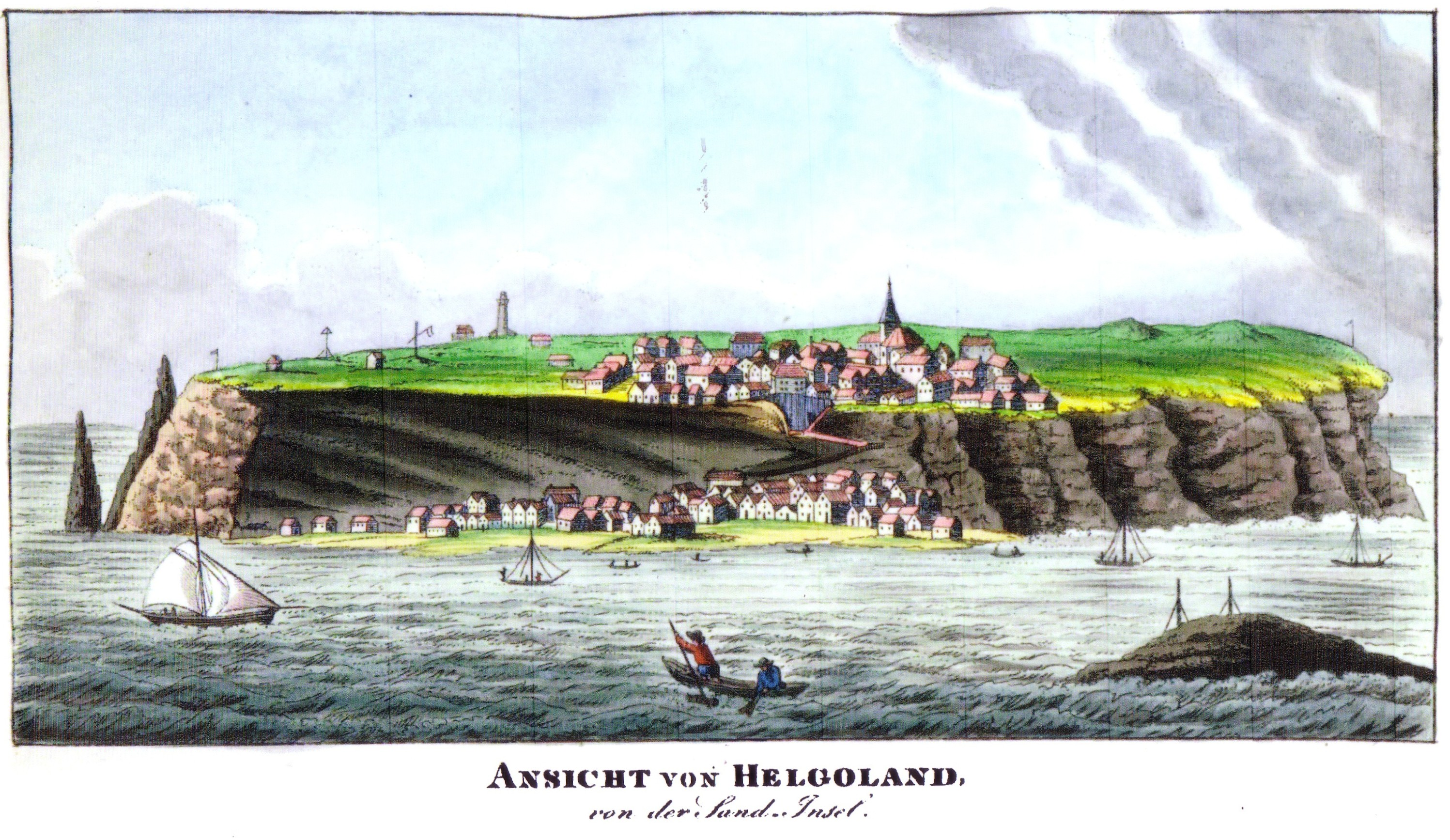 Helgoland view from Dune (Island called Düne)